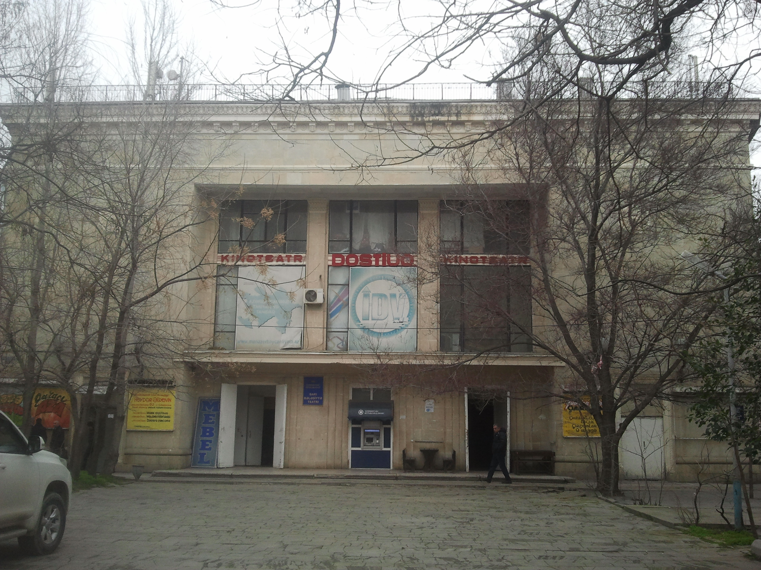 Baku Municipal Theatre